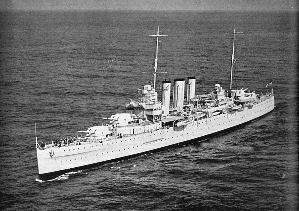 British 10,000 ton Cruisers HMS Devonshire Photo: Charles E. Brown